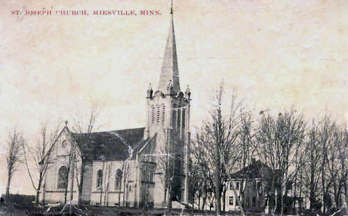 digital copy of 1910 postcard of St. Joseph Catholic Church in Miesville, Dakota County, North Carolina